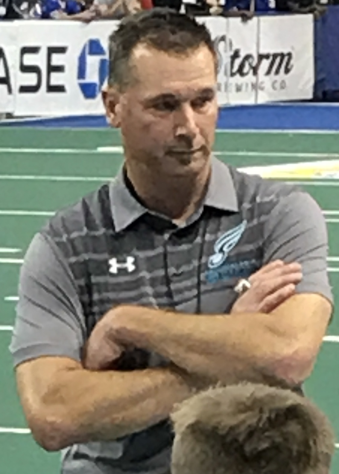 Clint Dolezel